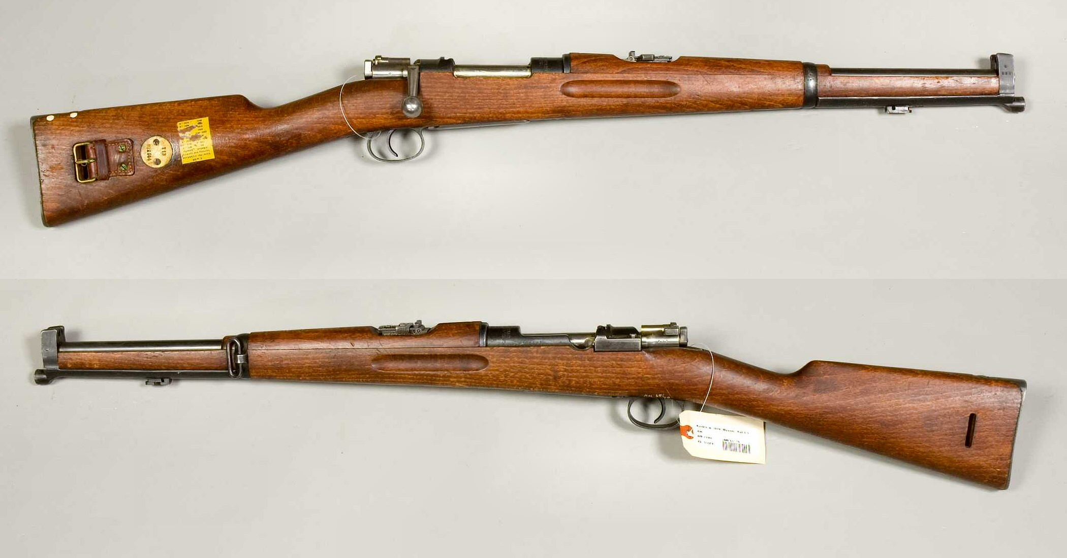 Swedish Army carbine Model 1894-14 in caliber 6.5x55mm. From the collections of Armémuseum (Swedish Army Museum), Stockholm.